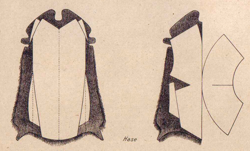 Graphics for Furriers